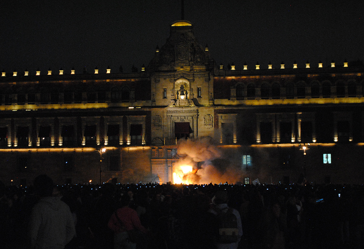 Flames of molotov bombs in the Puerta Mariana of Palacio Nacional Demonstration held in Mexico City from PGR offices to Zocalo demanding the safe return of the 43 Ayotzinapa Missing Students.